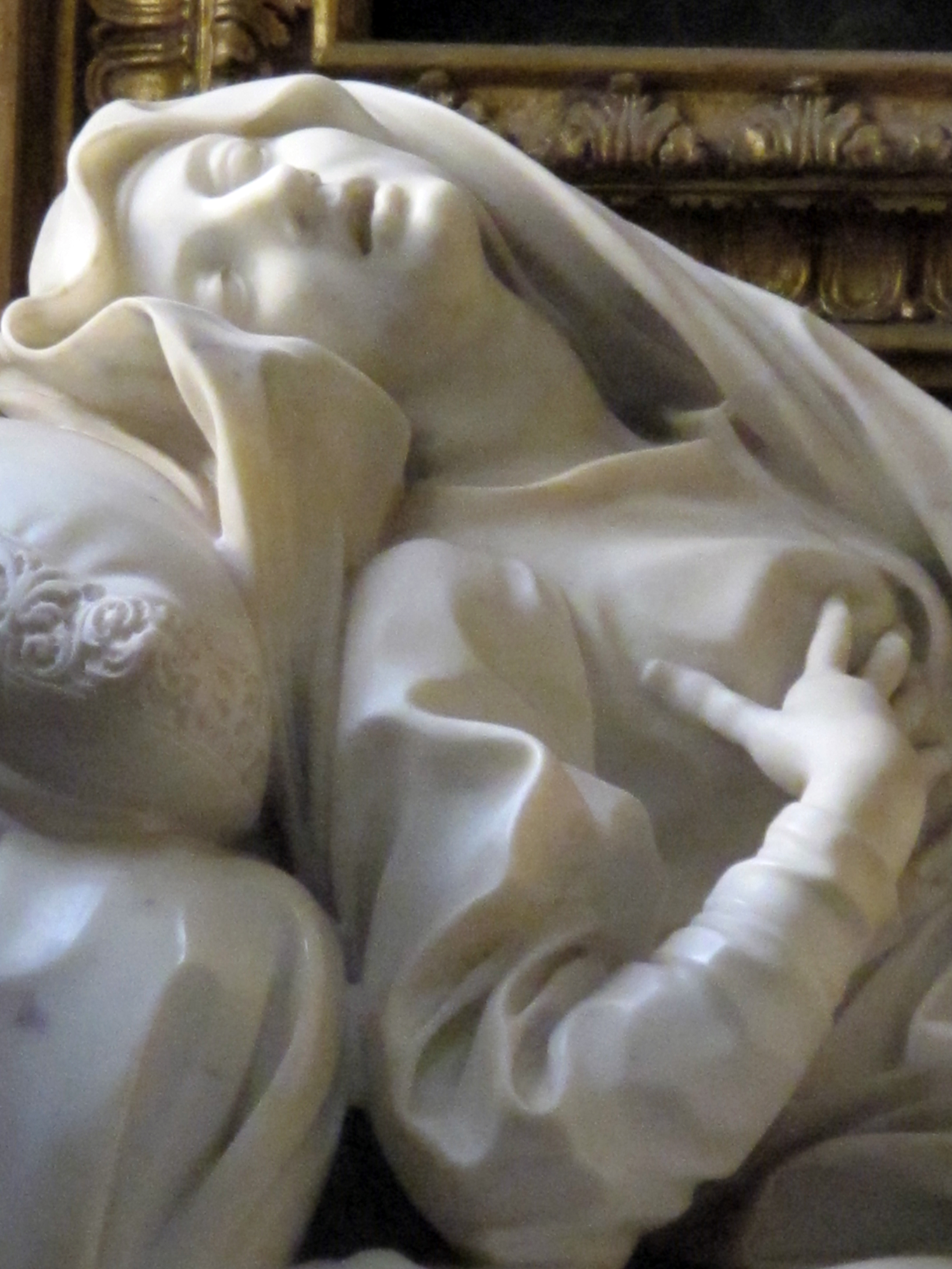 Blessed Ludovica Albertoni by Gian Lorenzo Bernini (detail), Altieri Chapel, San Francesco a Ripa, Rome